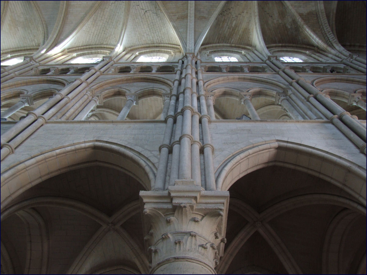 Cathédrale Notre-Dame de Laon (Cathedral Notre Dame of Laon), Laon, France - Interior